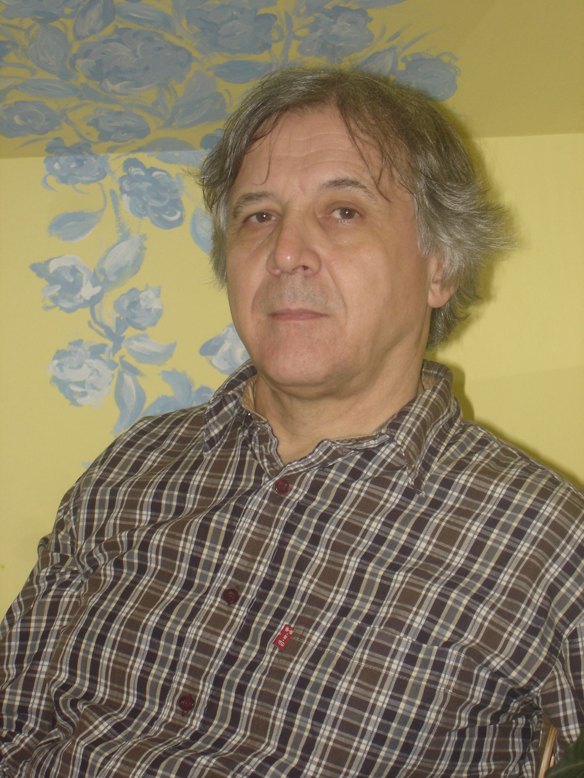 czech writer Václav Jamek